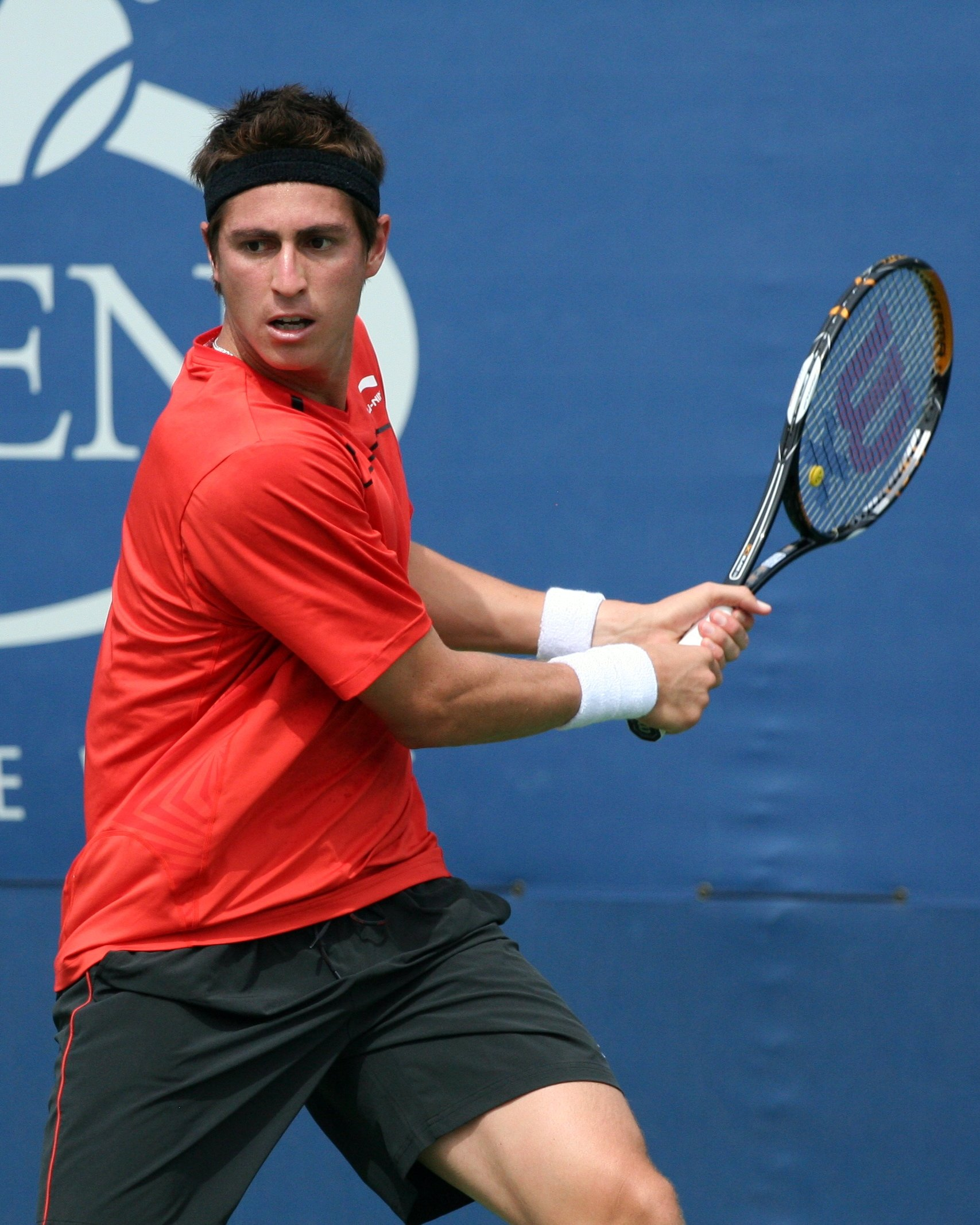 U.S. Open Monday, Aug. 31, 2009